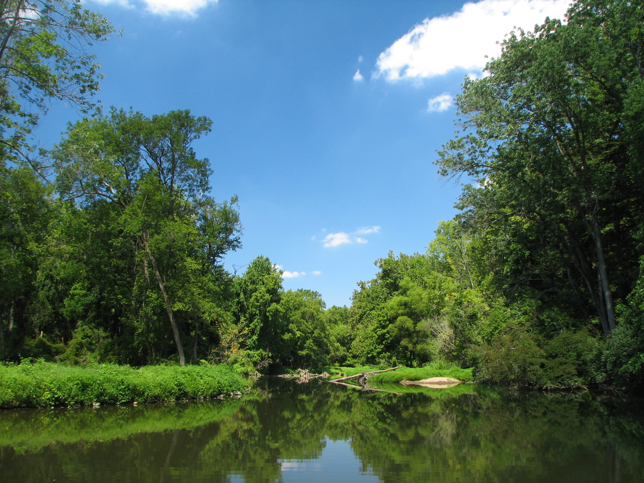 White Clay Creek in Newark, Delaware, taken from the middle of the creek atop what used to be the dam for the Curtis Paper Mill.